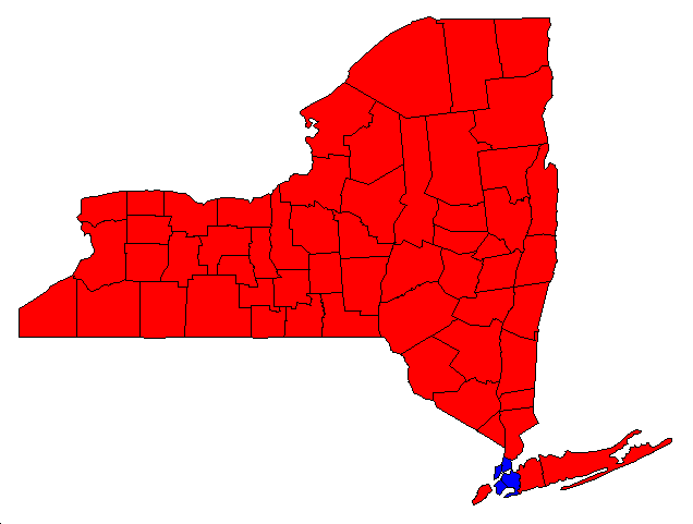 Map created by myself, showing counties won by Pataki in red and by Vallone in Blue. New York gubernatorial election, 1998.